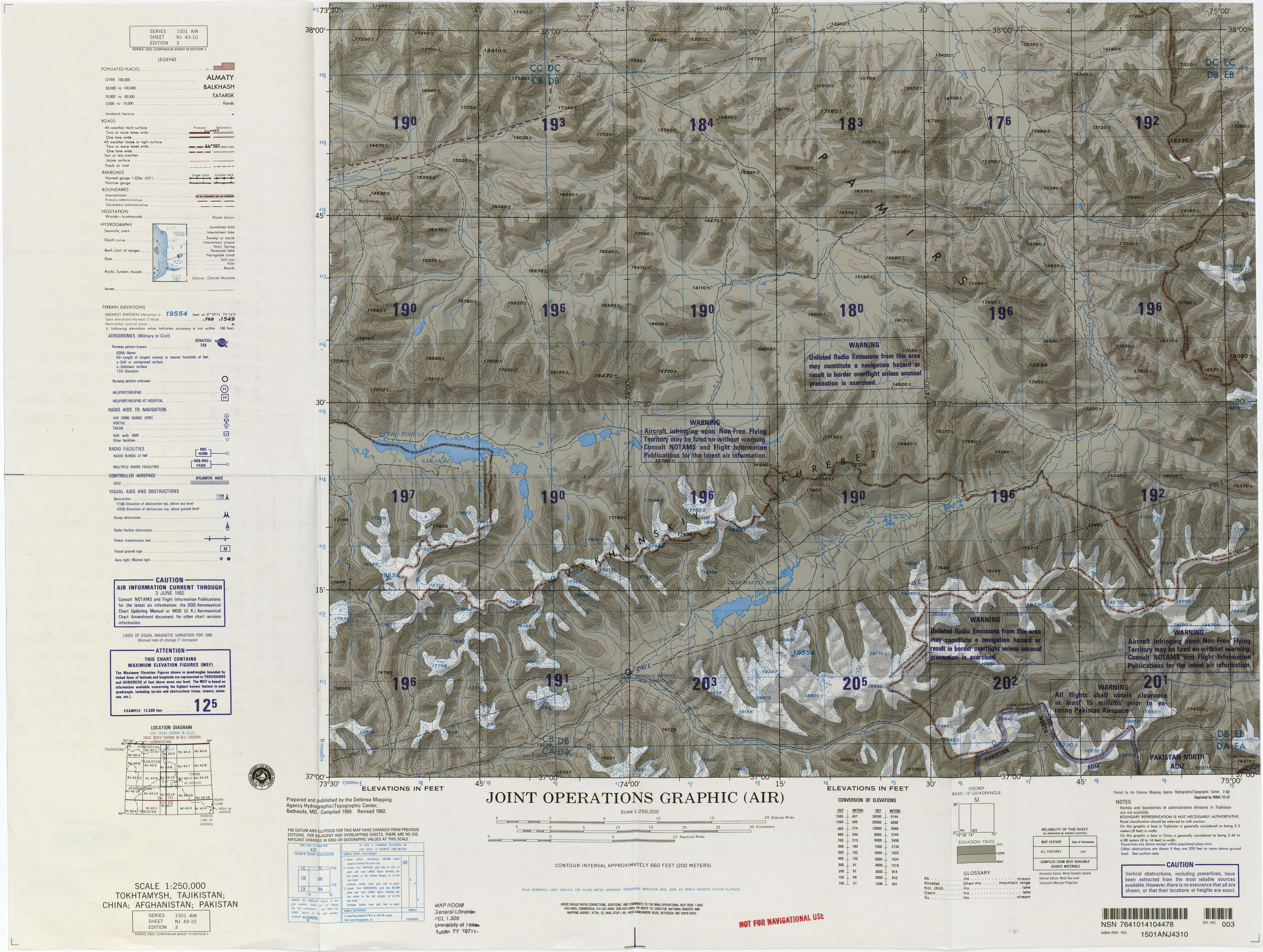 NJ 43-10 Tokhtamysh, Tajikistan; China; Afghanistan; Pakistan (7.1MB)